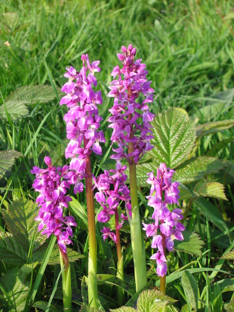 Early Purple Orchids These orchids are a feature of Hollingbury hillfort each spring. Counts are made annually, with the highest count in recent years being 3,110 on 5th May 2008.